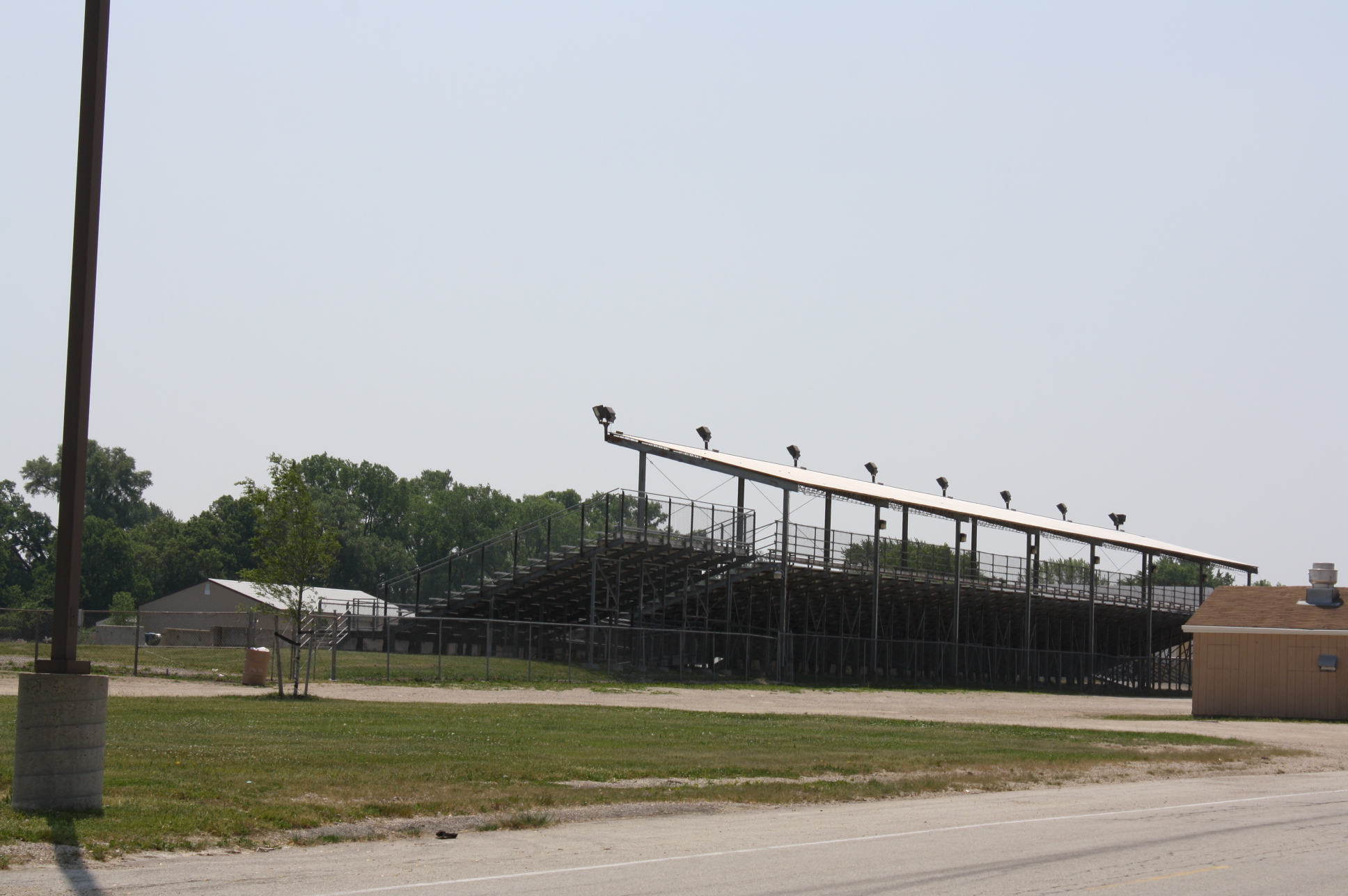 The fairgrounds for Fond du Lac County, Wisconsin in Fond du Lac, Wisconsin. The fairgrounds held stock car racing in the 20th century.